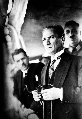 Mustafa Kemal Atatürk and Kazım Özalp in Ertuğrul Yatch, 1 July 1927. Kemal Atatürk (or alternatively written as Kamâl Atatürk, Mustafa Kemal Pasha until 1934, commonly referred to as Mustafa Kemal Atatürk; 1881 – 10 November 1938) was a Turkish field marshal, revolutionary statesman, author, and the founding father of the Republic of Turkey, serving as its first President from 1923 until his death in 1938. He undertook sweeping progressive reforms, which modernized Turkey into a secular, industrial nation. Ideologically a secularist and nationalist, his policies and theories became known as Kemalism. Due to his military and political accomplishments, Atatürk is regarded as one of the most important political leaders of the 20th century.